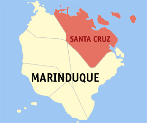 Map of Marinduque showing the location of Santa Cruz